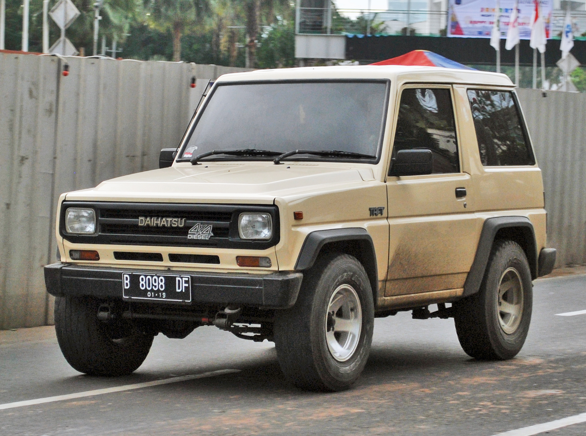 Front view of a Daihatsu Taft GT passing through MH Thamrin Road, Jakarta, Indonesia.